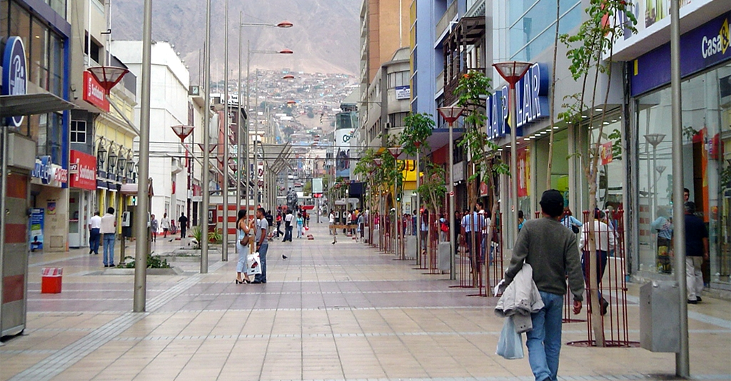 Arturo Prat pedestrian mall.